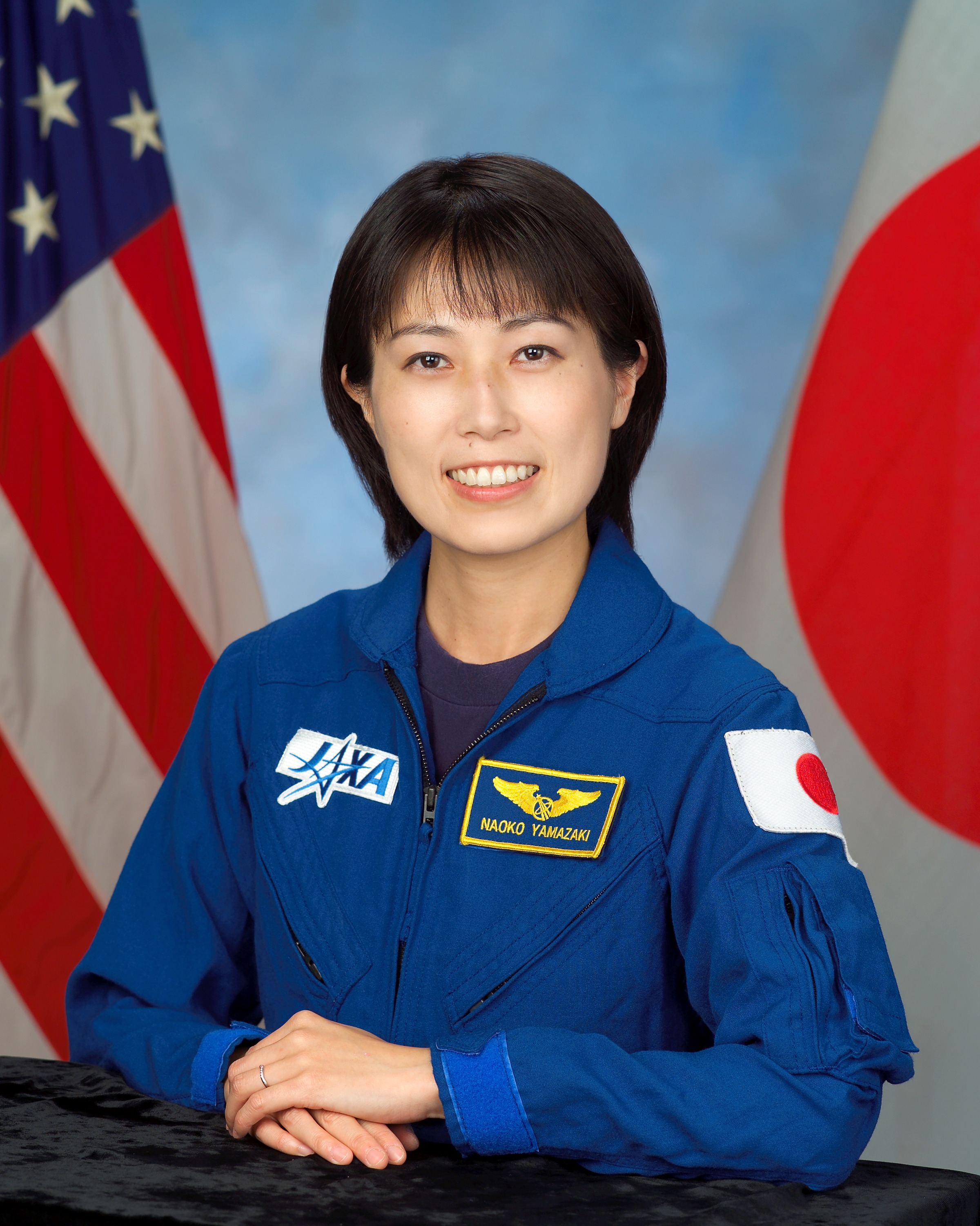 Naoko Yamazaki, ASCAN Class of 2004, representing the Japan Aerospace Exploration Agency (JAXA).